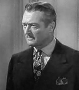 Edmund Lowe in I Love You Again - trailer (cropped screenshot)